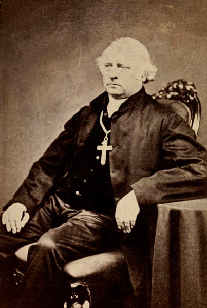 Laurence Sheil, Catholic Archbishop of Adelaide 1866-1872, circa 1872